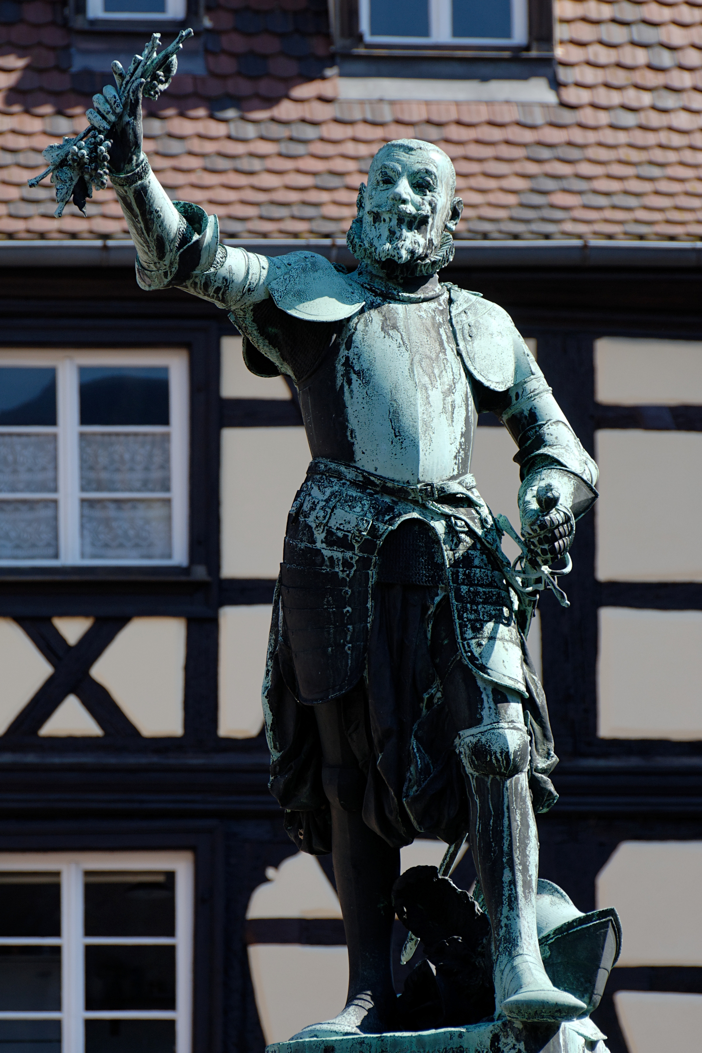 Statue of Lazarus von Schendi (1522-1583) by Frédéric Auguste Bartholdi (1834–1904), Schendi Fountain in Colmar, France.